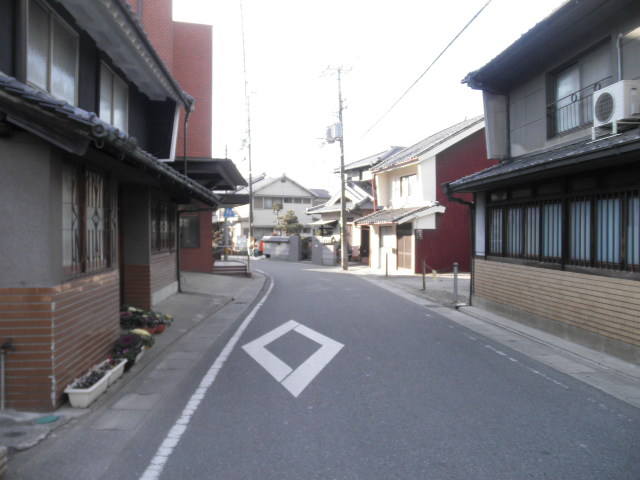 Otsuka1 Mikicity Hyogopref